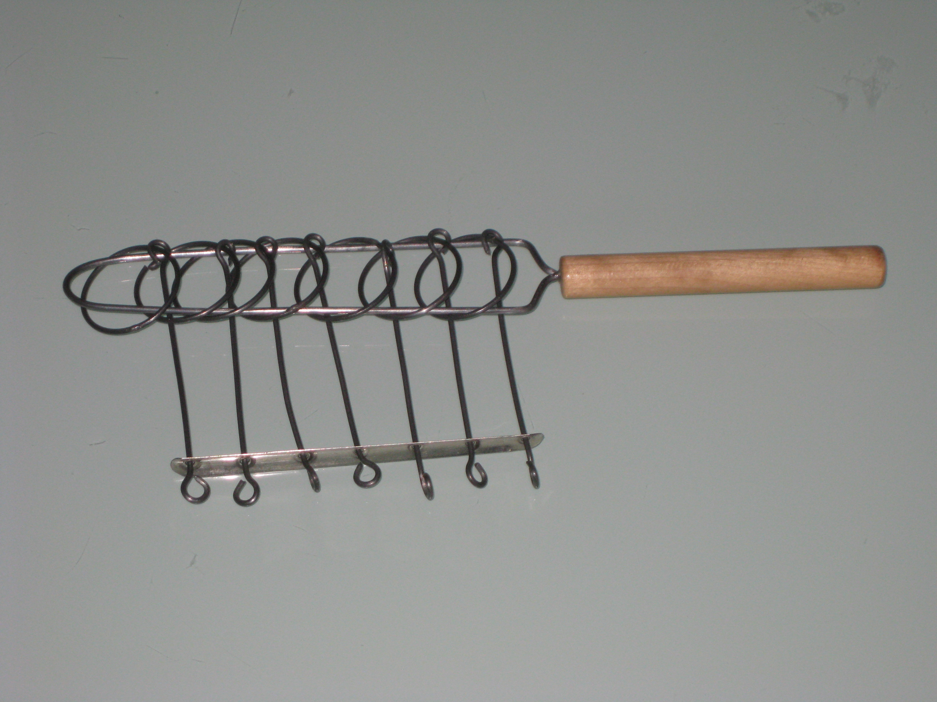 Patience Puzzle